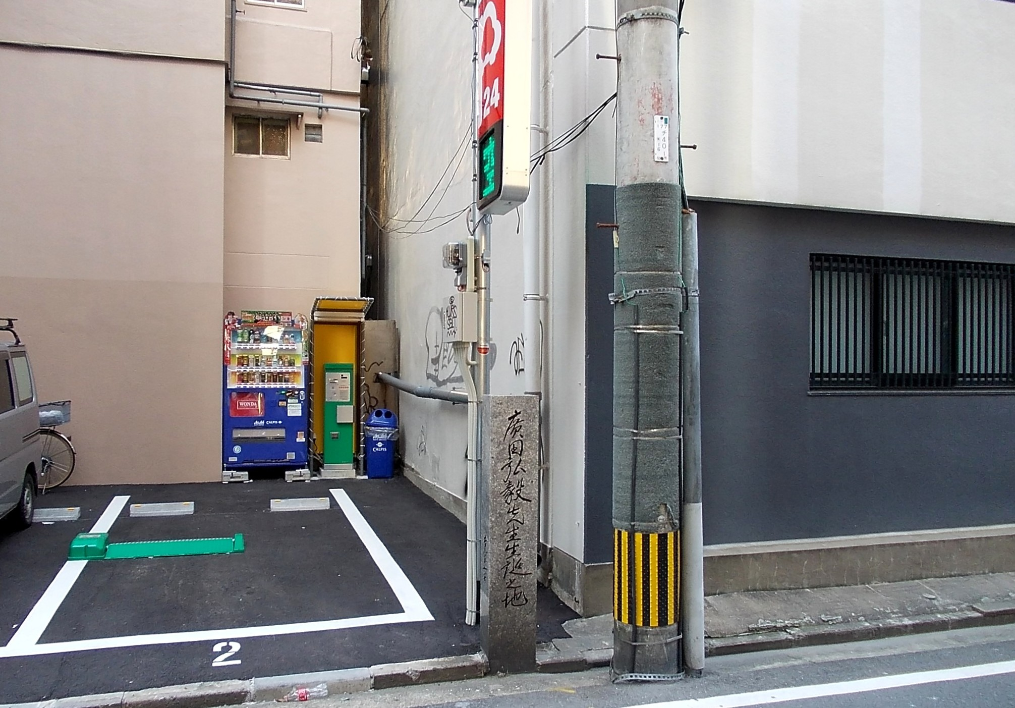 The birthplace of former Japanese prime minister Kōki Hirota